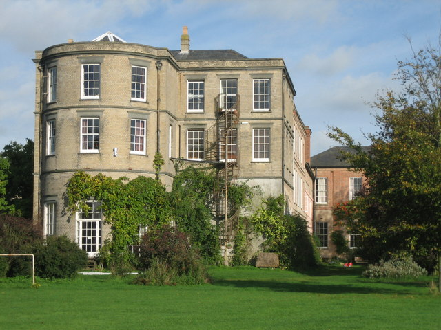 South front of the Old Hall, Est Bergholt, Suffolk. This is the southernmost part of a large building (more than 100 rooms, 355 windows) that has in its time been a manor house, nunnery, army barracks, friary and now communal household. The photograph was taken on private land by a resident.